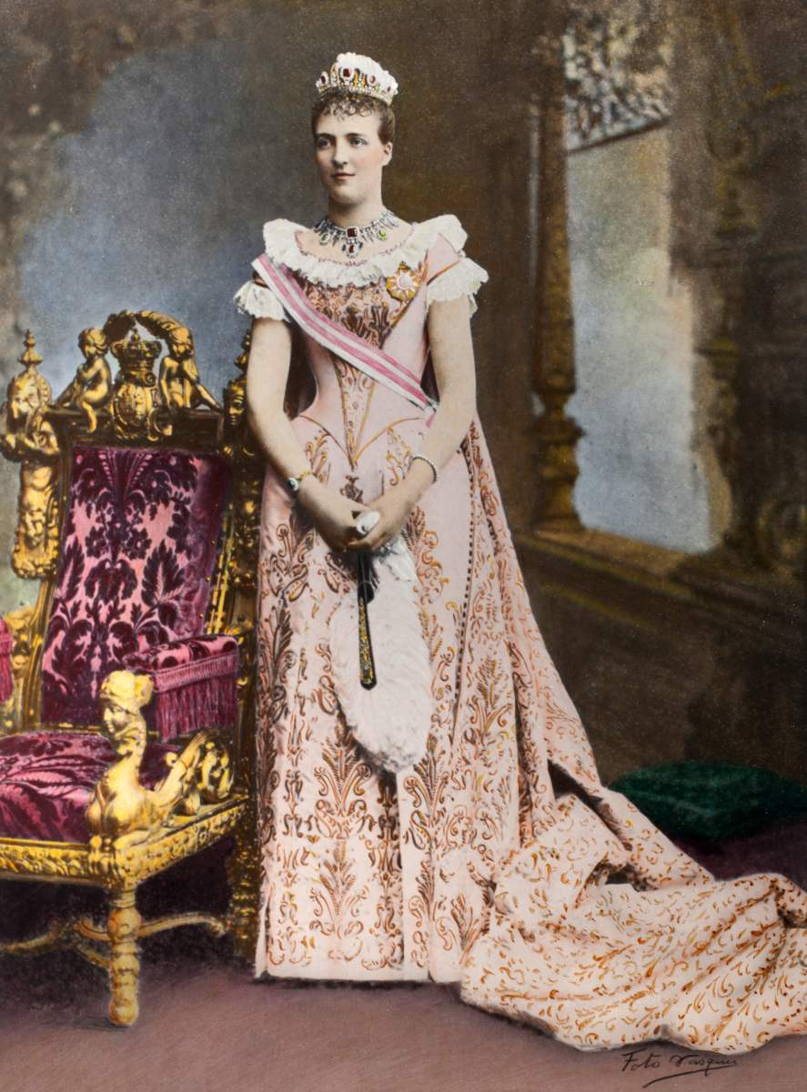 Amélie of Orléans, colourised photograph (Foto Vasques), c. 1900s.